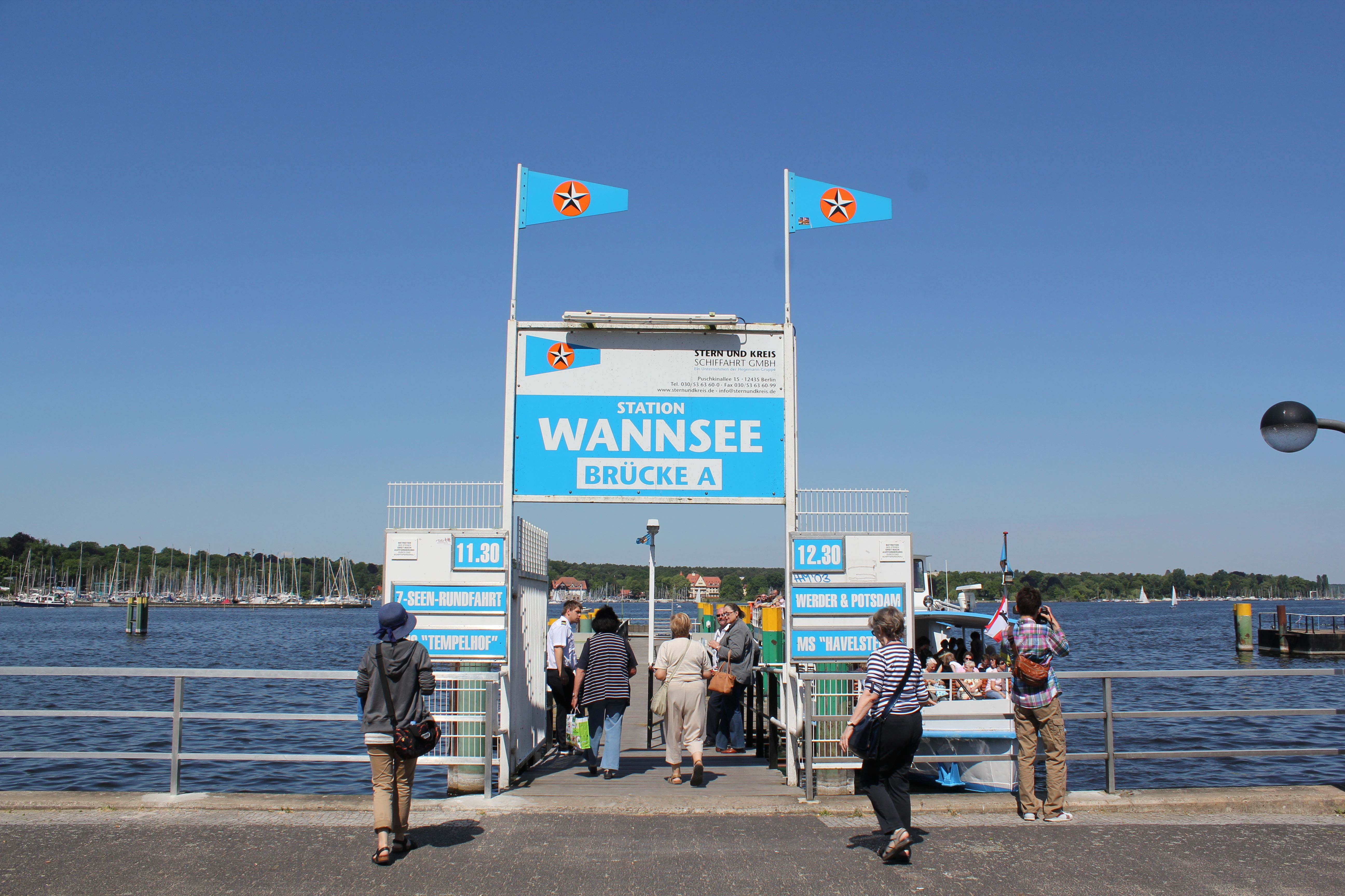 Berlin Wannsee Station